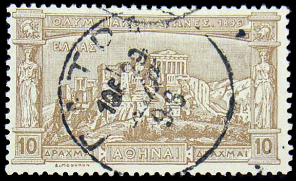 Stamp of Greece, The First Olympic Games, 1896, 10 d.